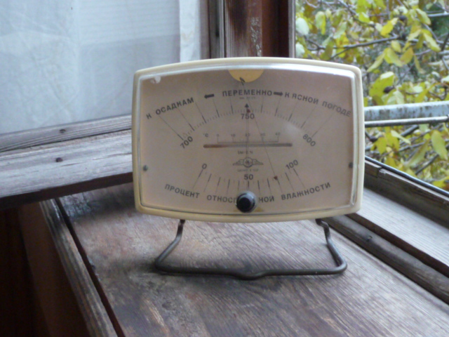 Combined athmospheric meter made in USSR